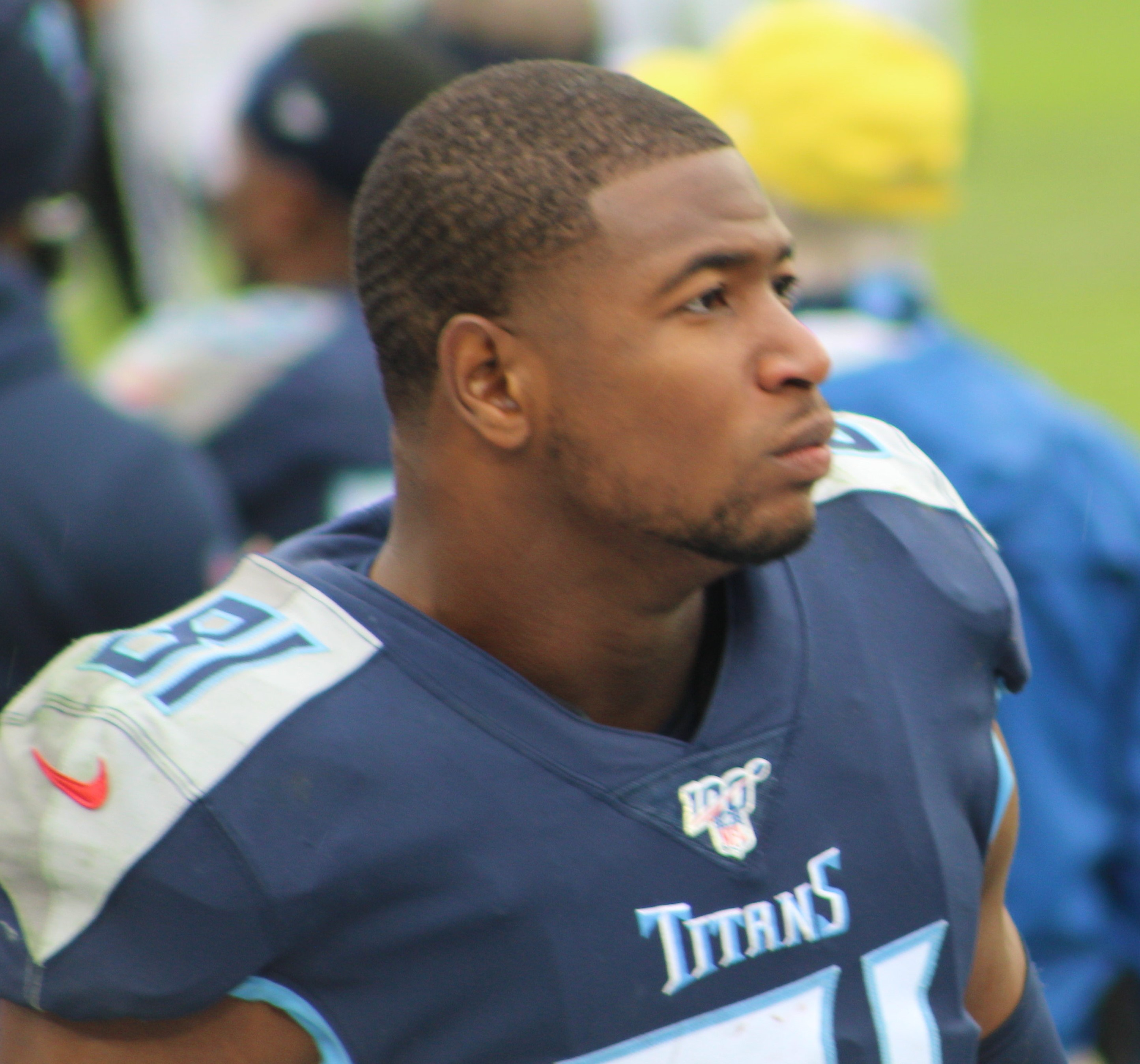 Smith with the Titans on December 22, 2019